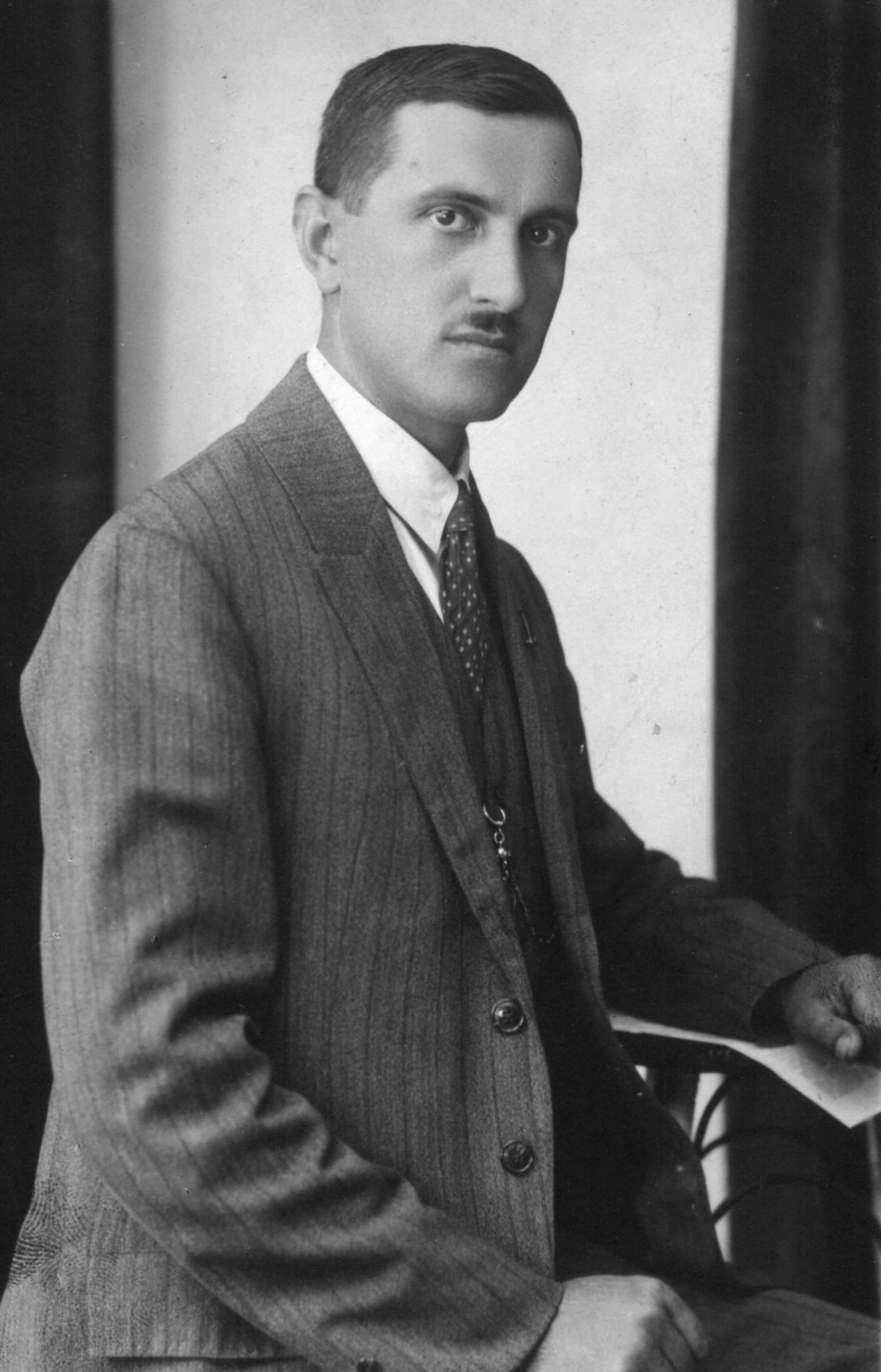 Antony Frel